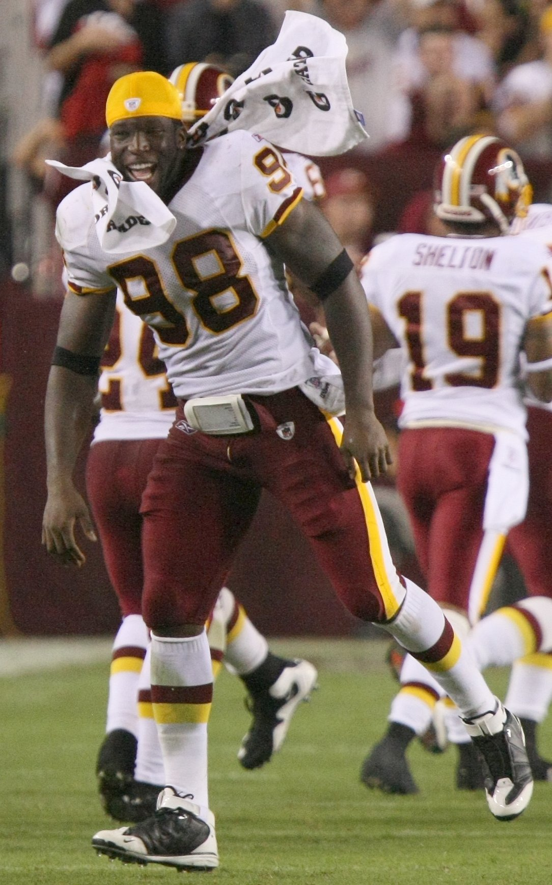 Washington Redskins Brian Orakpo (98) is exuberant after a big play during the New England Patriots at Washington Redskins preason game on August 28, 2009